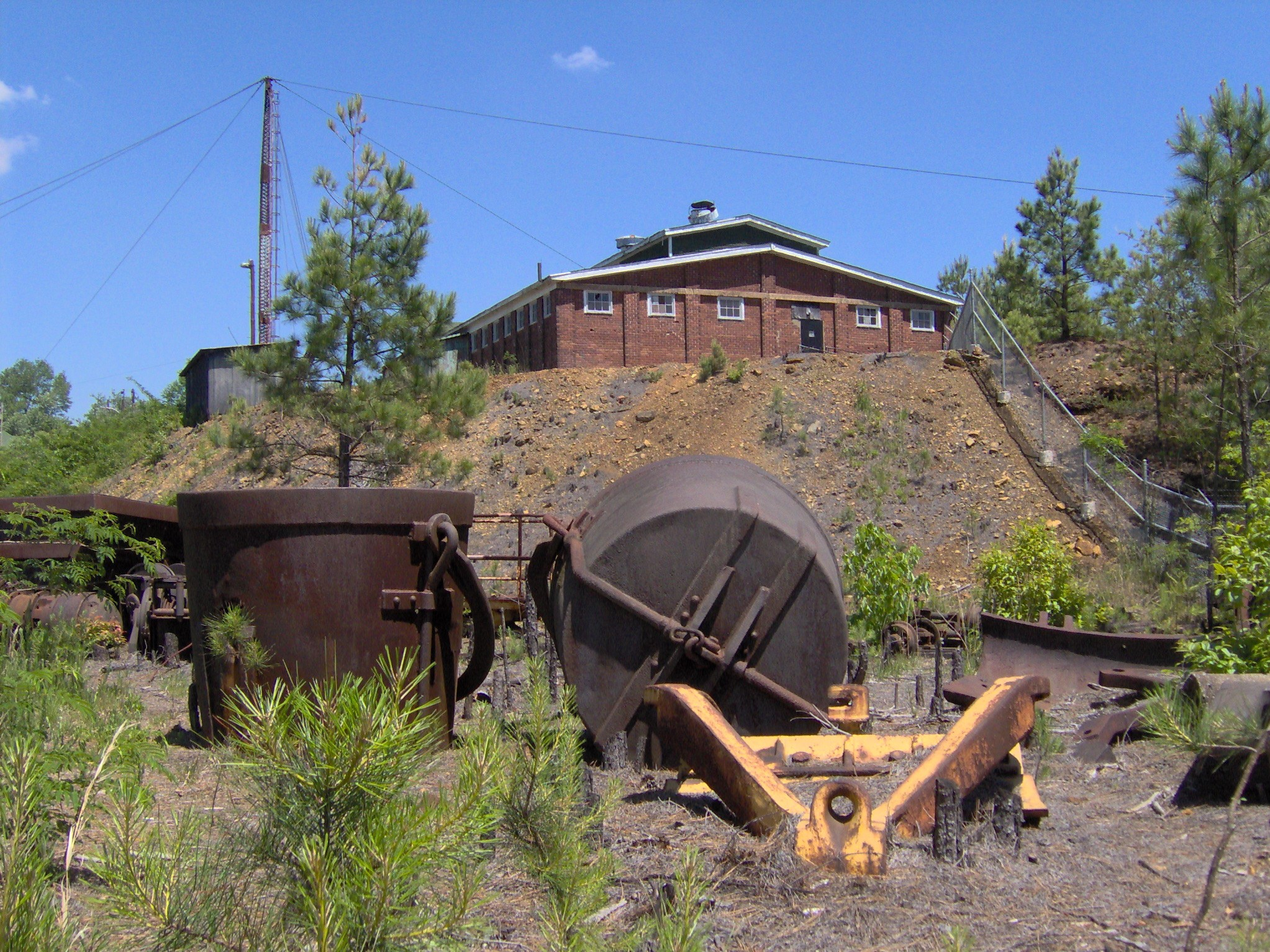 Machine parts and tools scattered about the grounds of the Burra Burra Mine site in Ducktown, Tennessee, in southeastern United States.